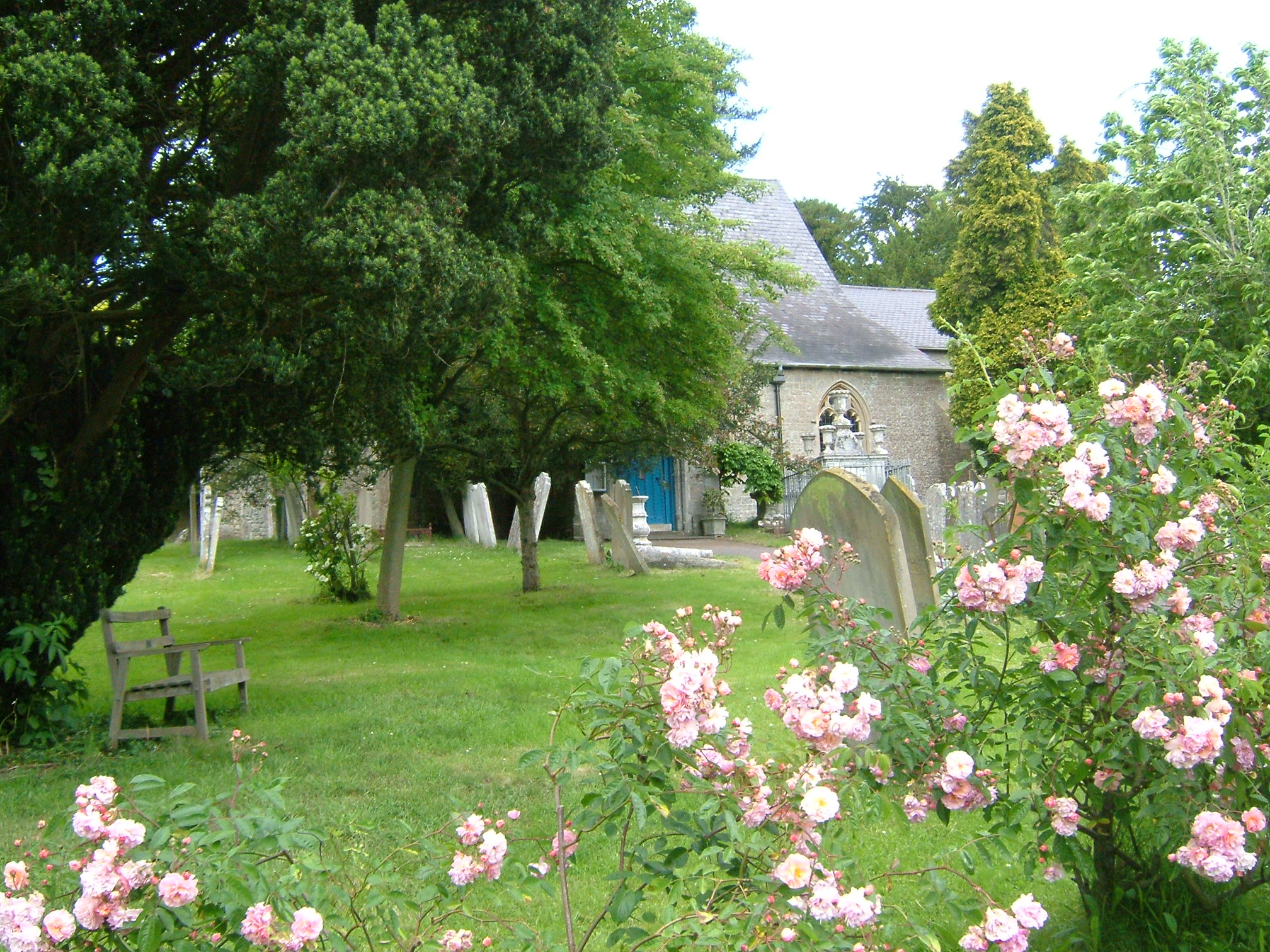 Churchyard of St John the Baptist, Wateringbury, complete with churchyard yew. - Google Maps - Google Earth